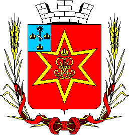 Project of coat of arms of Yelisavetrad by Koehne